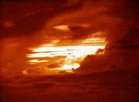 Operation Redwing - Navajo shot.